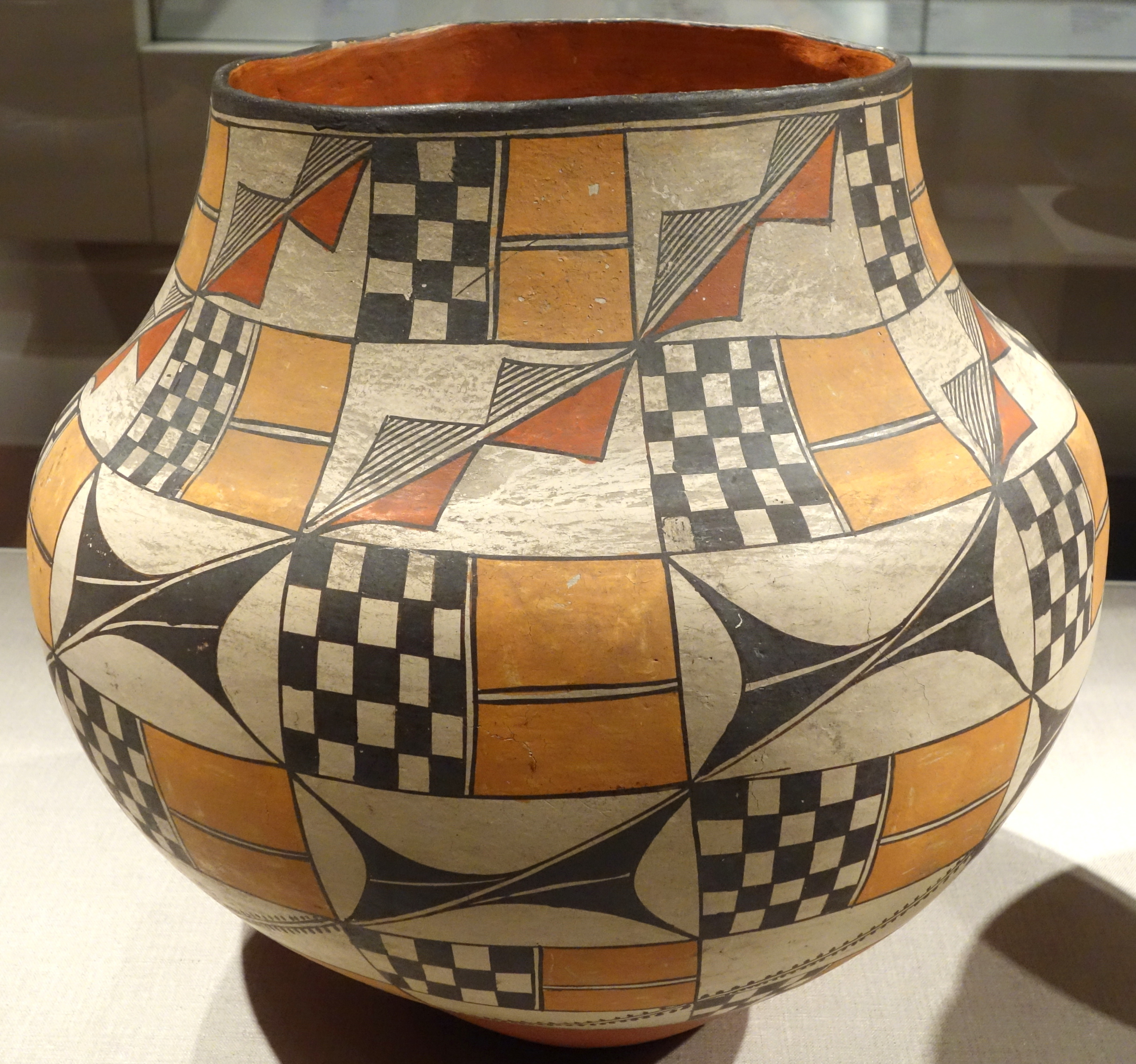 Exhibit in the De Young Museum, San Francisco, California, USA. This artwork is in the public domain because the artist died more than 70 years ago.